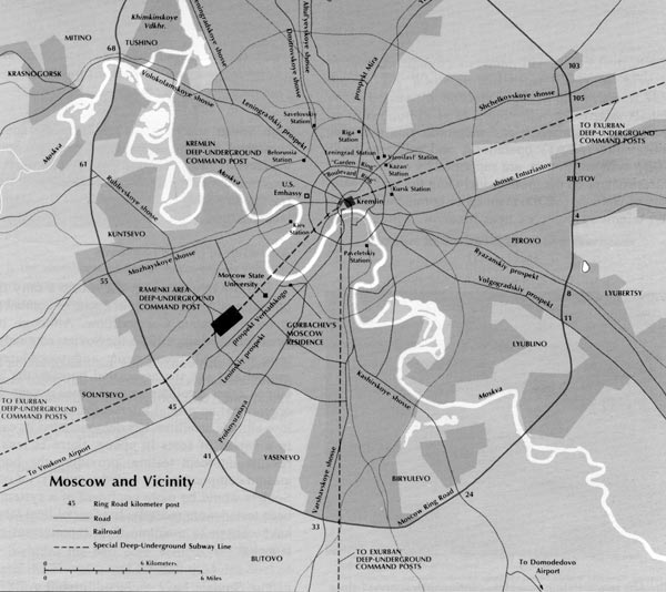 Map of Moscow Metro-2 as supposed to be by US military intelligence. with reference to "Military forces in transition. Department of Defence. 1991"